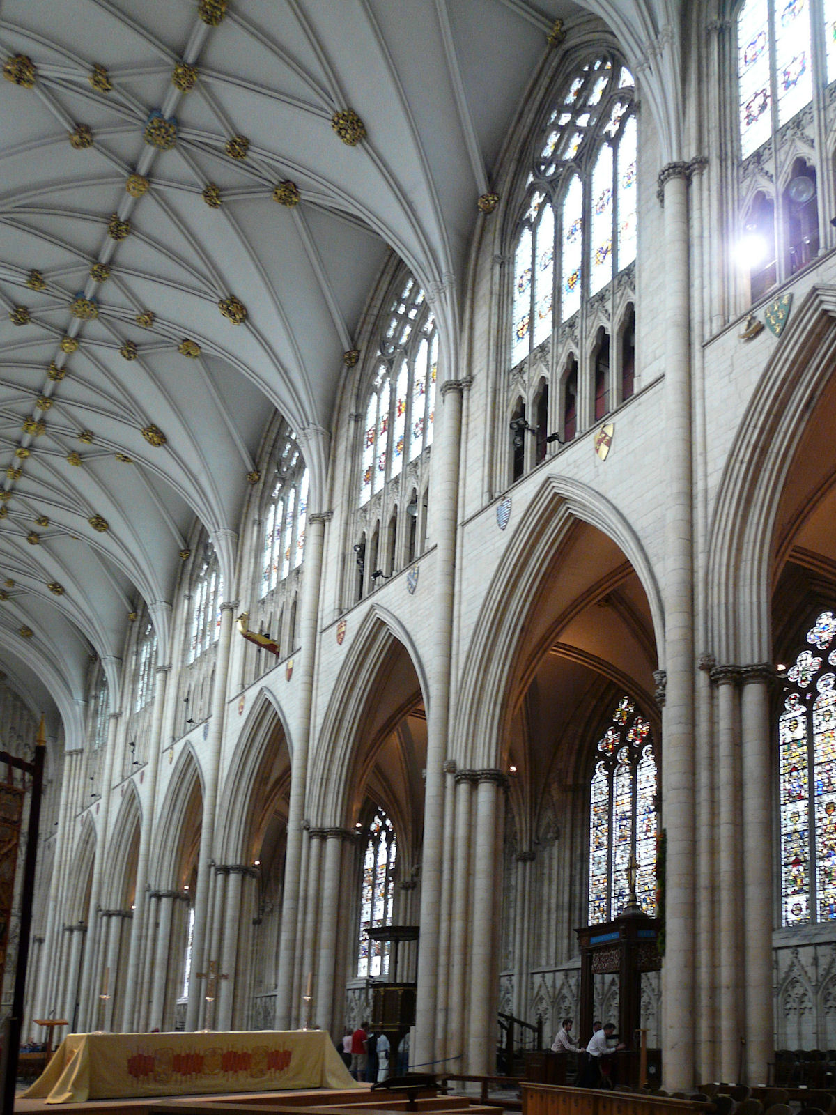 York Minster, York, England: clerestory and triforium.